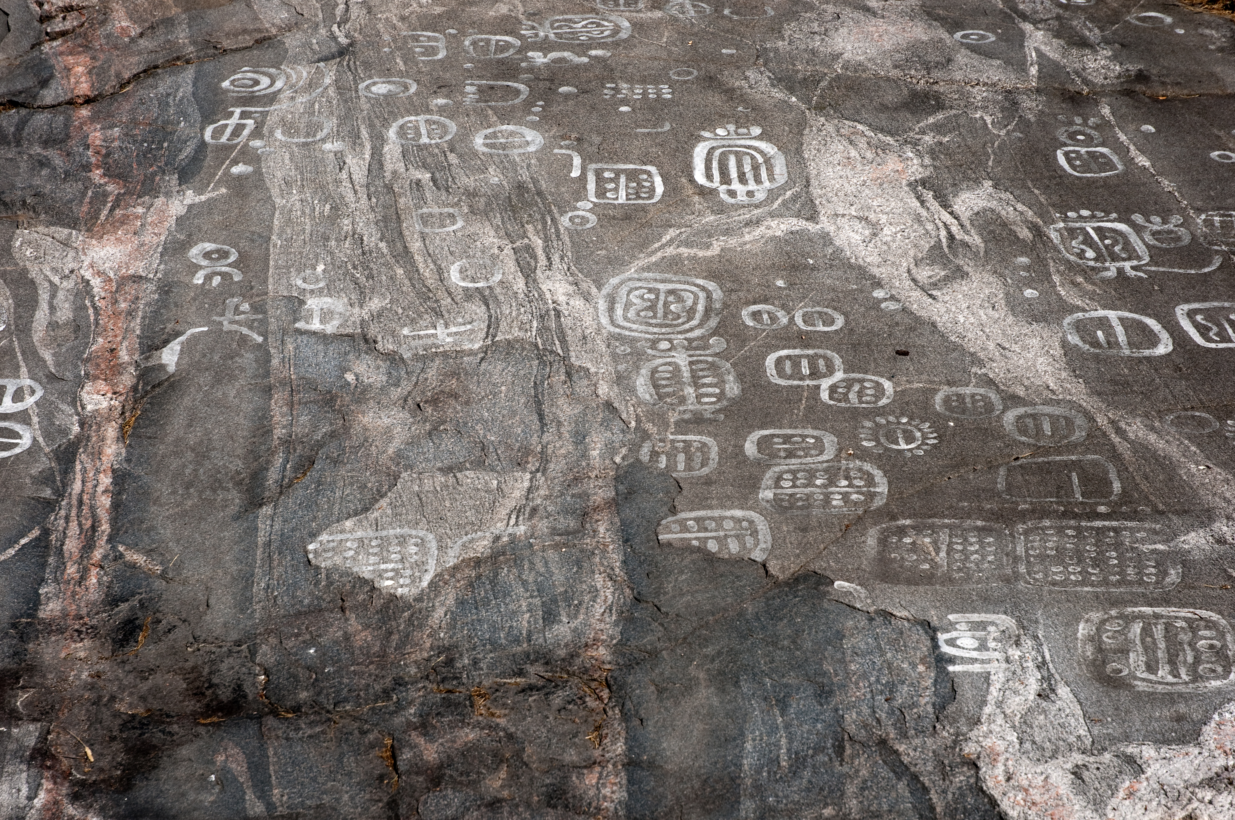 Some of the petroglyphs found at Släbro in Nyköping